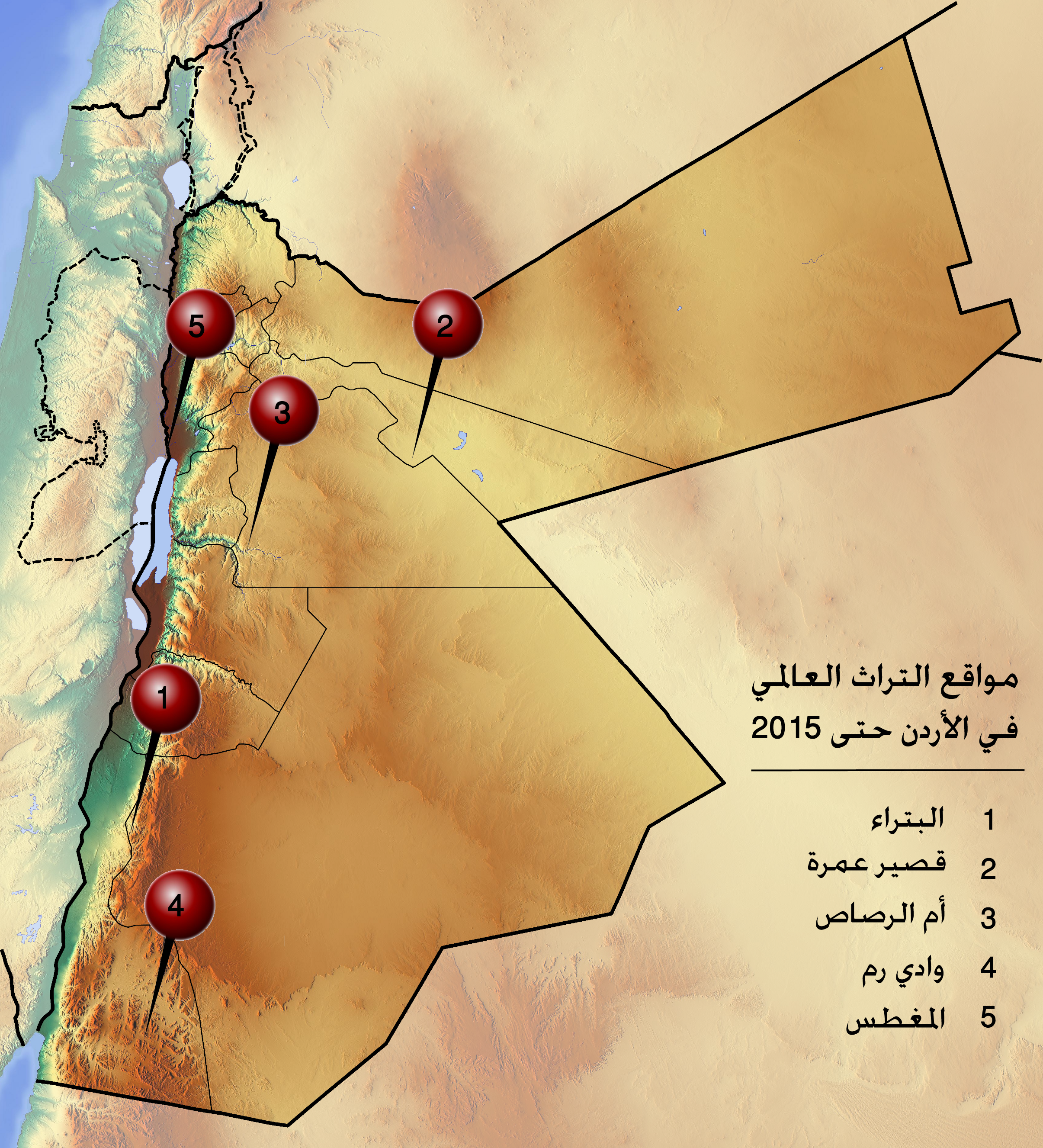 Jordan World Heritage Sites Map